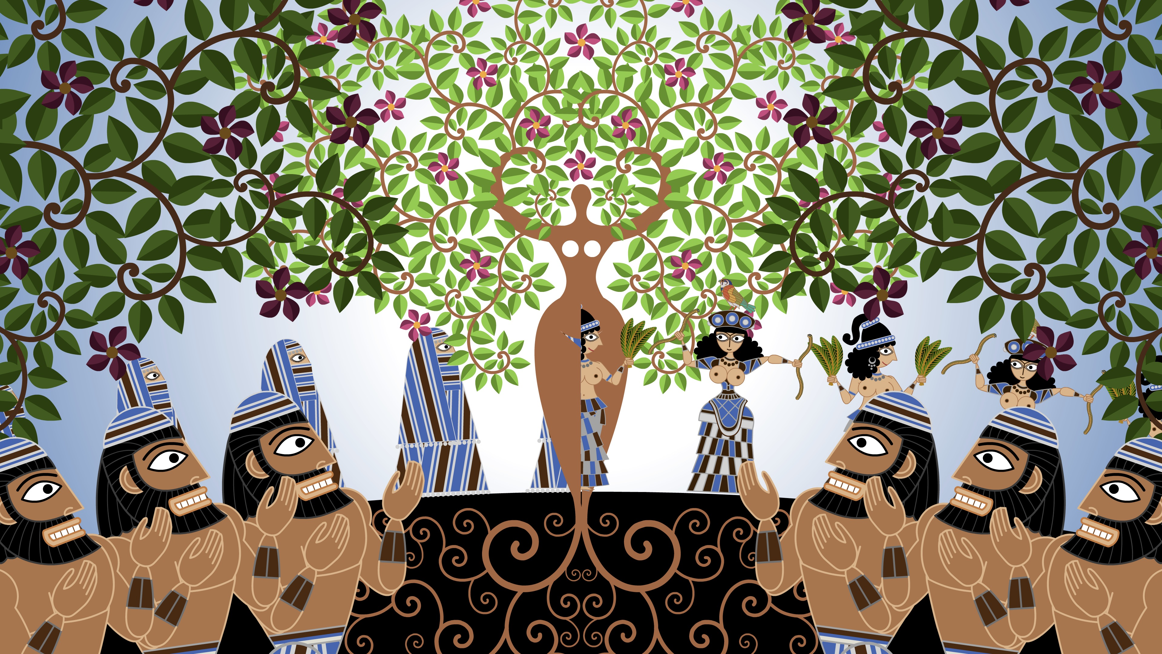 Still from the 2018 animated feature film Seder-Masochism by Nina Paley.